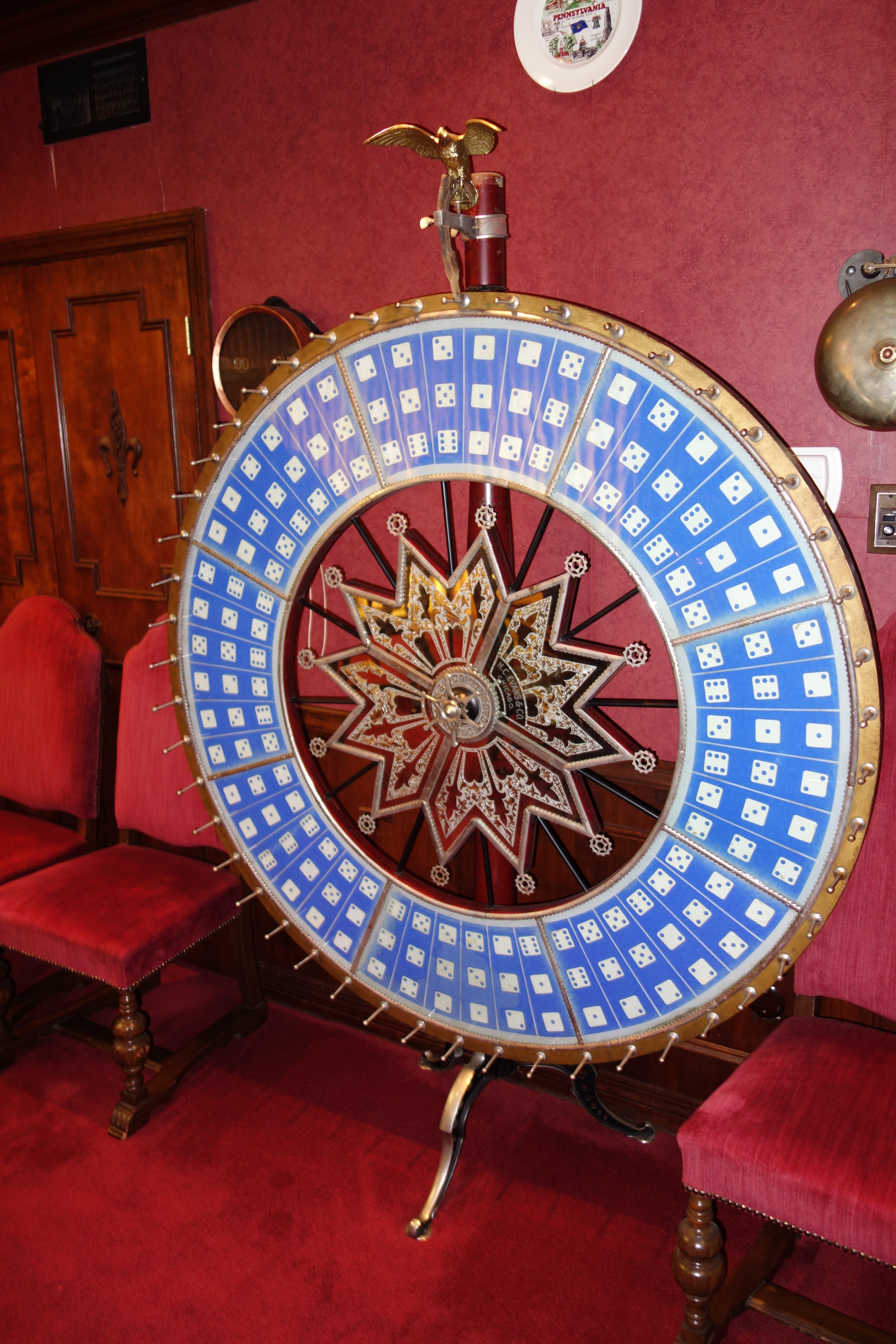 Exhibit in the Bayernhof Museum, 225 St. Charles Place, O'Hara Township, Pittsburgh, Pennsylvania, USA.